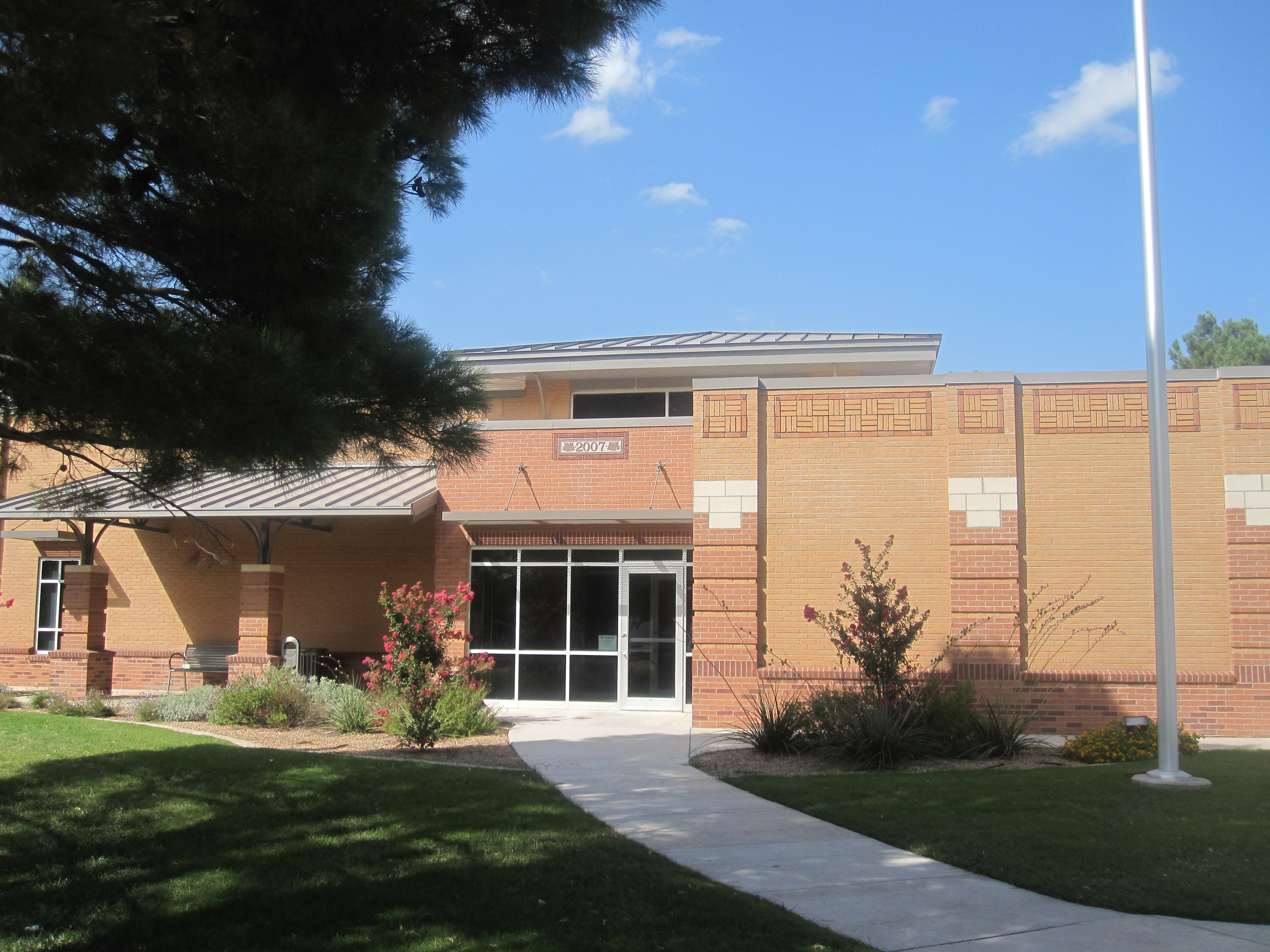 I took photo with Canon camera in Slaton, TX.